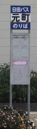 Hita Bus Motomachi Bus Stop